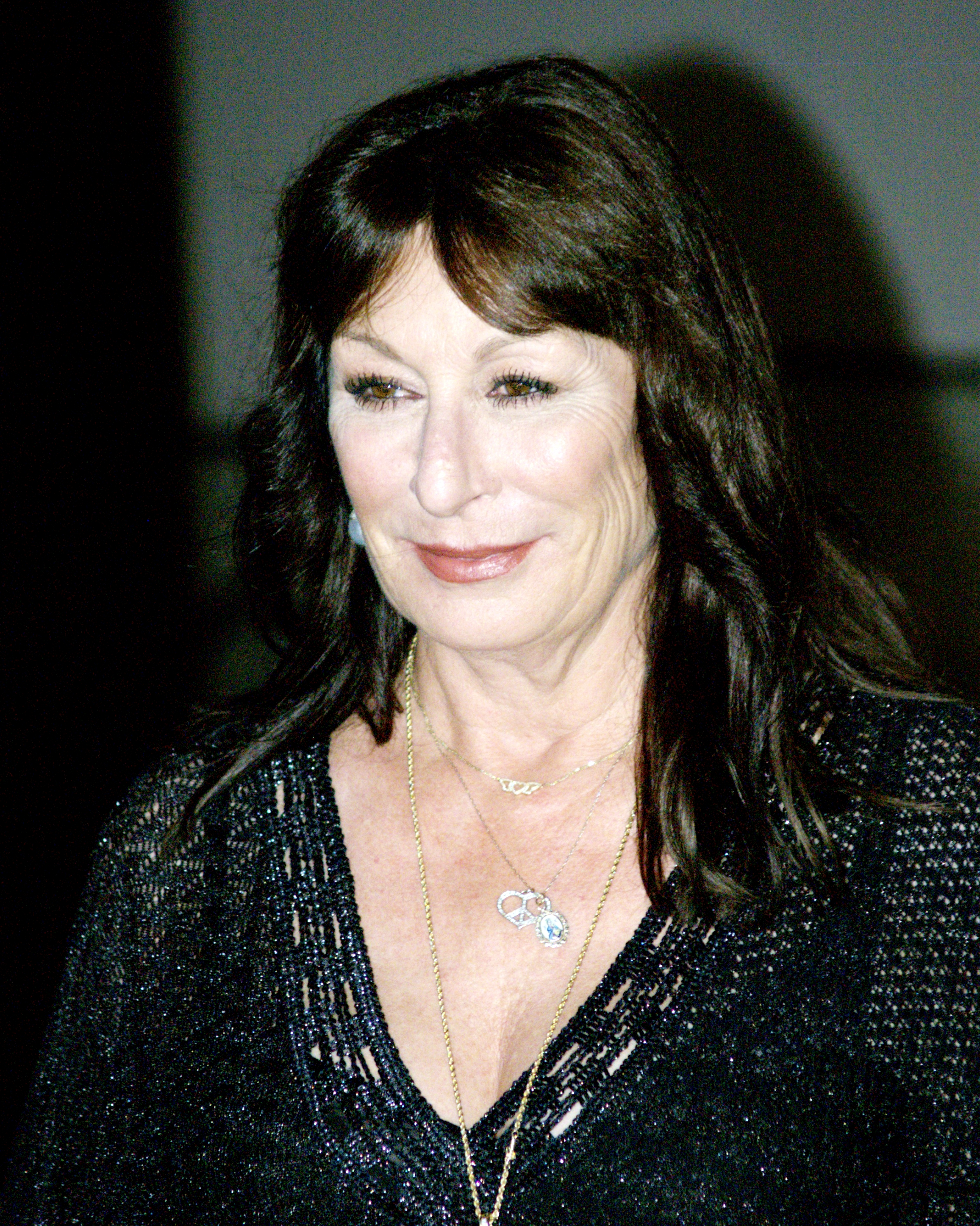 Anjelica Huston at Metropolitan Opera's 2010–11 Season Opening Night – Das Rheingold